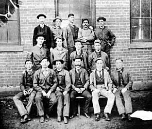 Subject: (From source:) The first two graduates of the school are H.L. Smith (top row, third from left) and G.C. Crawford (top row, fifth from left). on